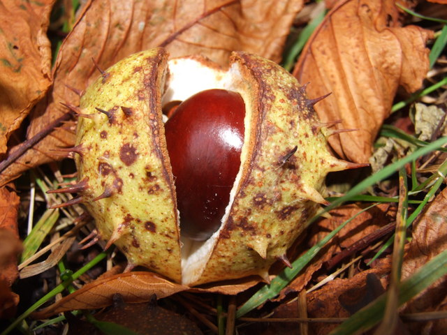 Autumn Conker Conker is the name used in Britain, Ireland and some former British colonies for the nuts of the Common Horse-chestnut tree, this Conker is photographed in the grounds of Keithhall in Autumn 2006.